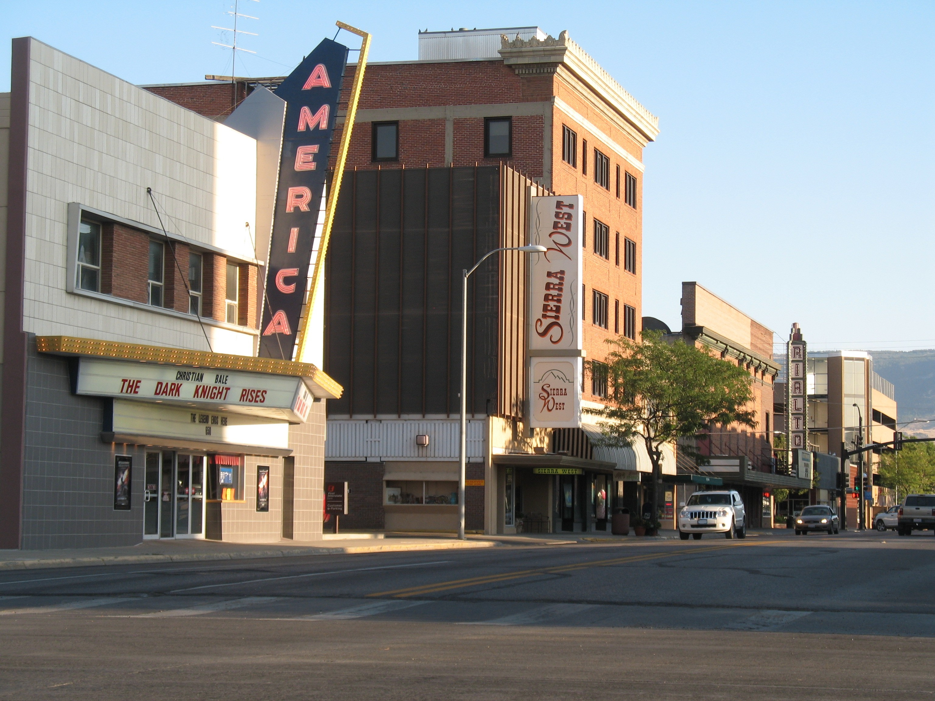 East side of Center Street in downtown Casper, Wyoming, between Second and First Streets.